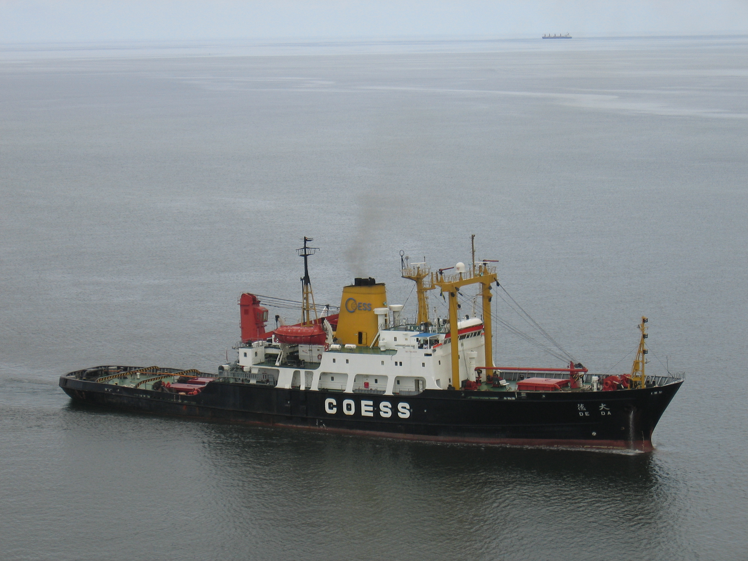 The tug De Da off the coast of Cabinda, at the Benguela Belize oil platform location. IMO Number: 7814993 Built 1979 3917 Grt 321 ft